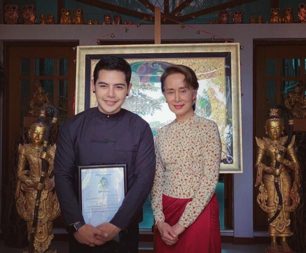 Kyaw Kyaw Bo is a Myanmar Academy Award winning Burmrese actor.